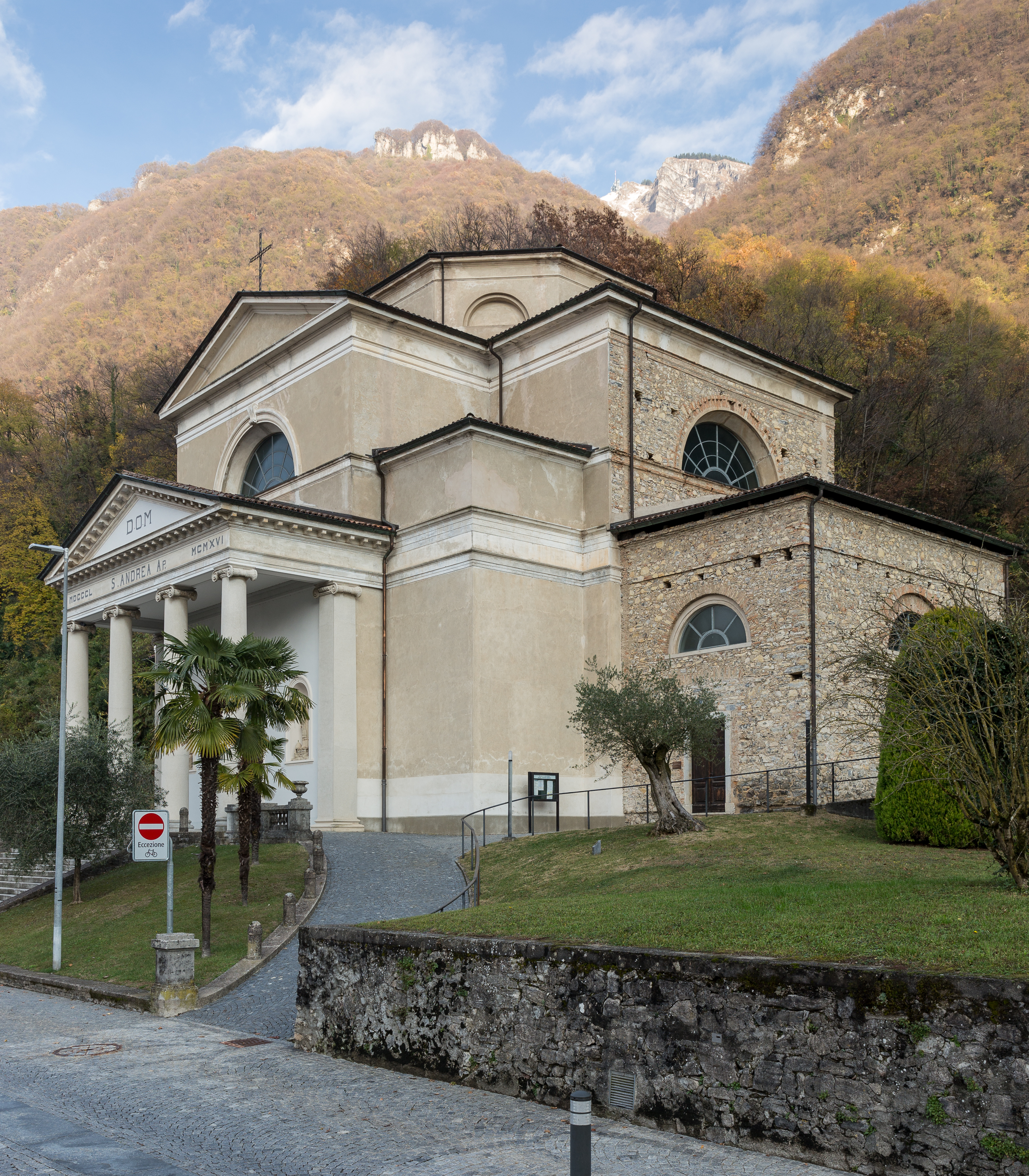 Chiesa di Sant'Andrea in Melano, canton of Ticino, Switzerland